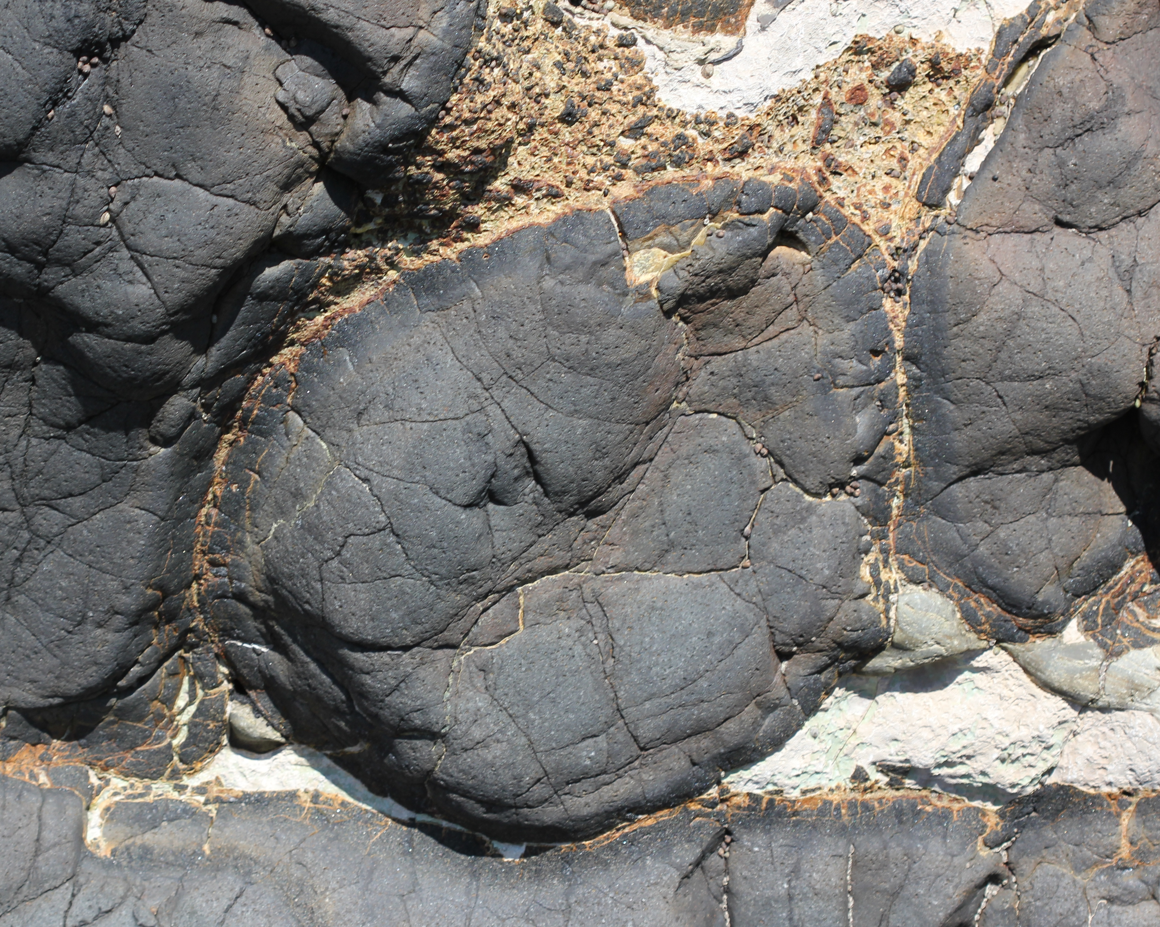 Cross-section of pillow lava of Eocene age in the cliffs near Oamaru, New Zealand. The central pillow has a dark skin on its upper edge where it has cooled rapidly in contact with the water. The white rock between the pillows is limestone.